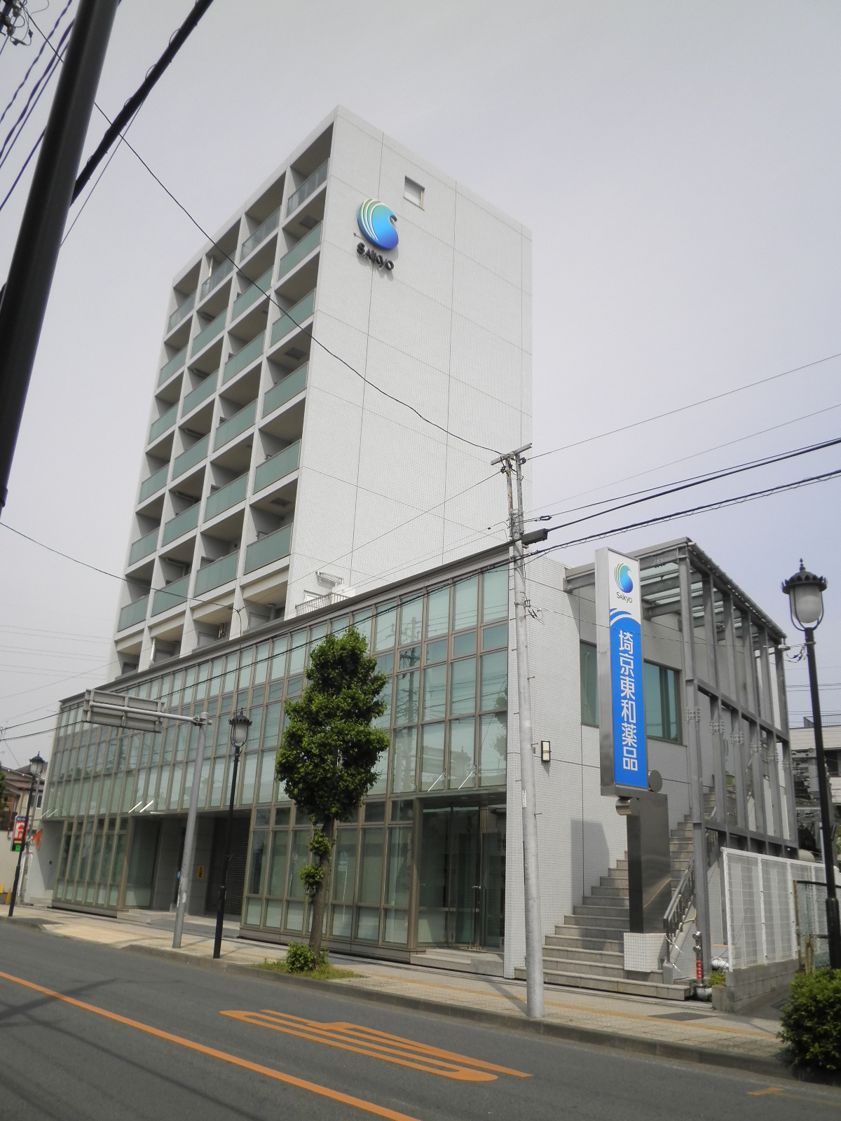 Saikyo Towa Medicine Co., Ltd Headquarters in Saitama, Japan.